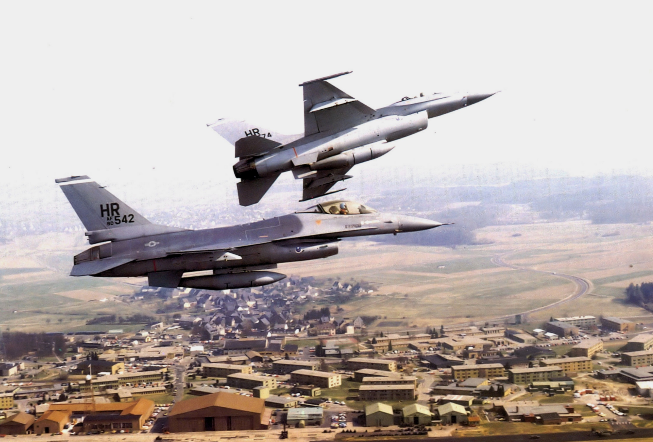 U.S. Air Force General Dynamics F-16As of the 50th Tactical Fighter Wing over Hahn Air Base (West Germany).